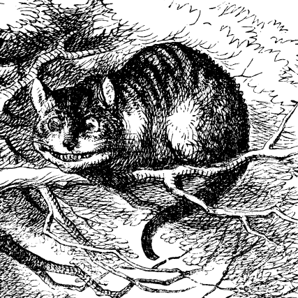 The cheshire cat in Lewis Carroll's Alice in Wonderland drawn by John Tenniel (1820-1914) in the 1866 edition.